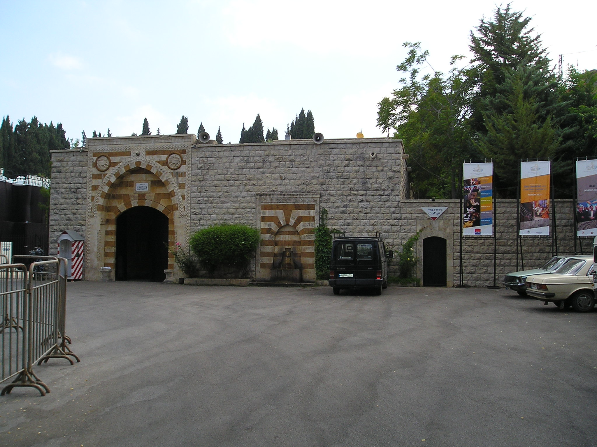 Beiteddine, Lebanon - an entrance to the Beiteddine PAlace